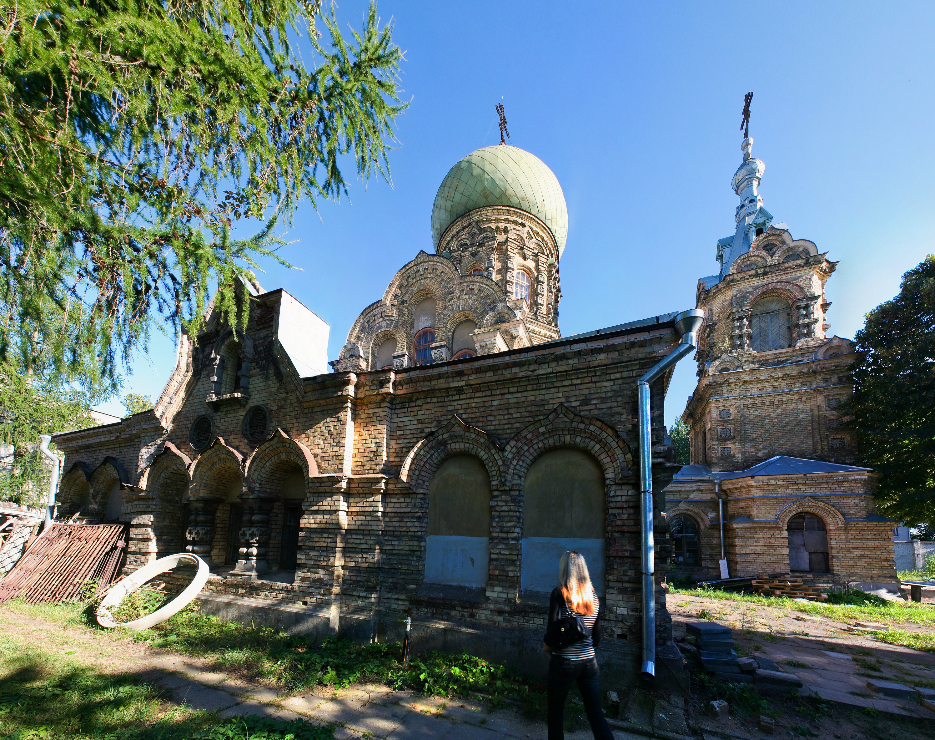 Alexander Nevsky church in Naujininkai from north